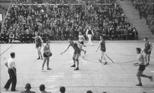 Photo of game between Lithuania and Hungary national basketball teams during EuroBasket 1939.